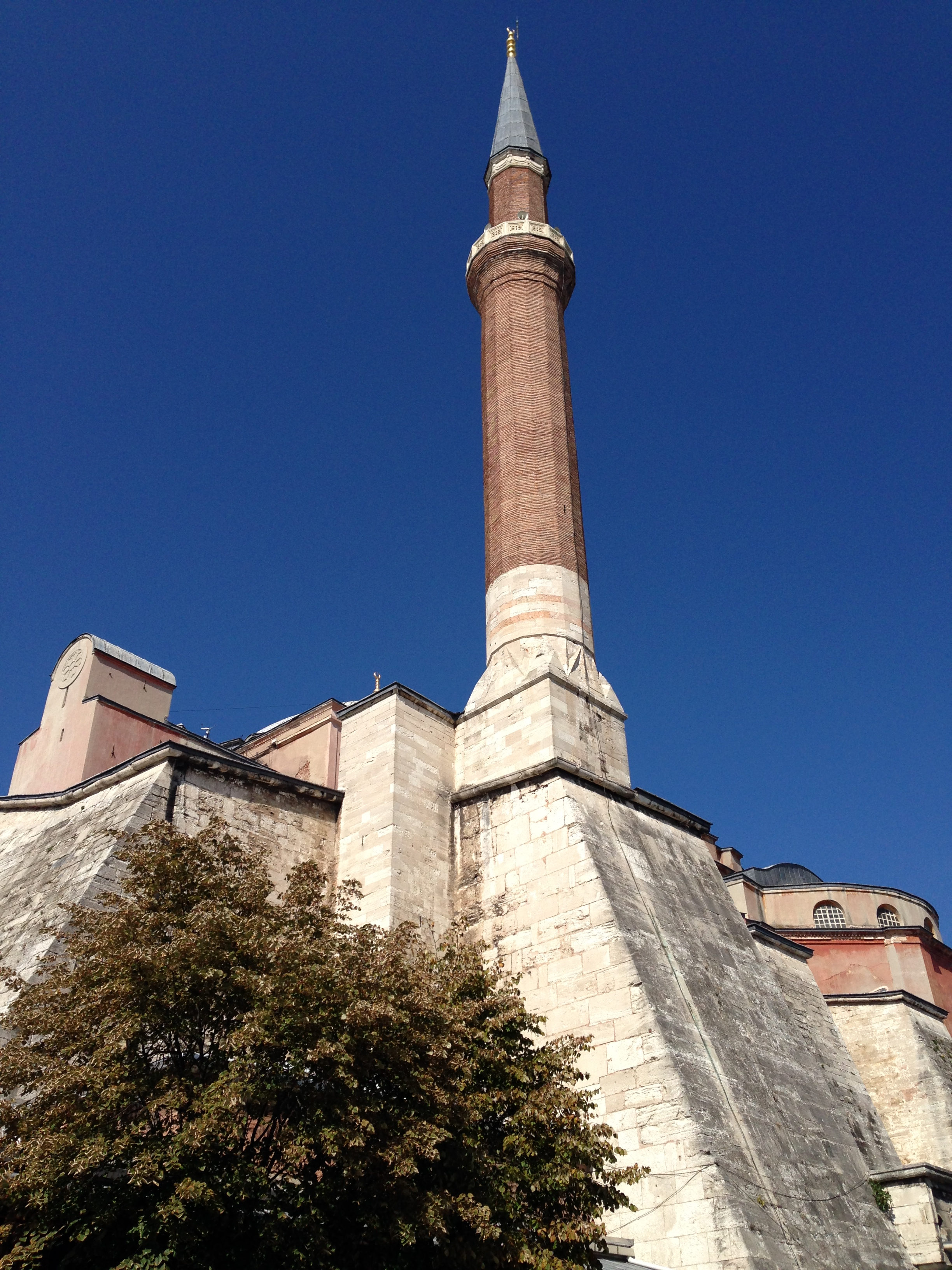 Hagia Sophia, Istanbul, Turkey.